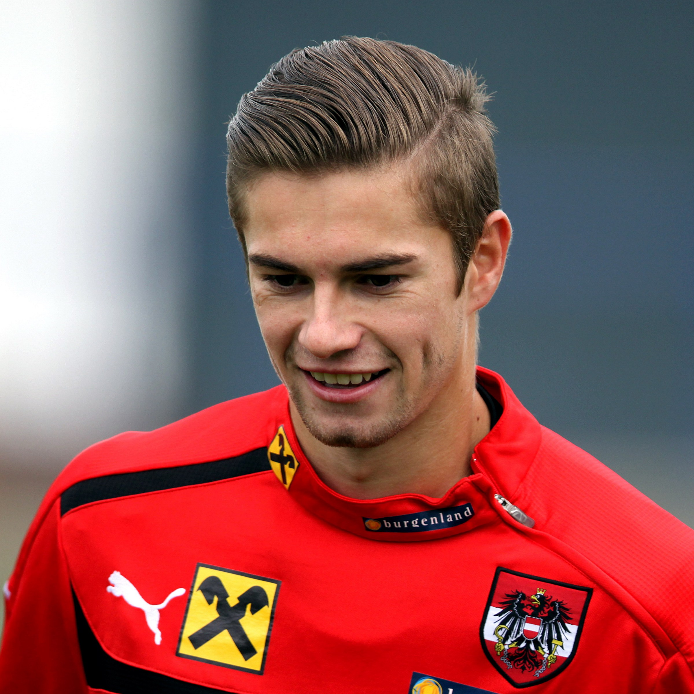 Teamcamp of the Austria national under-21 football team on 5.–9. October 2015 in Bad Erlach – The photo shows Andreas Gruber (SK Sturm Graz)